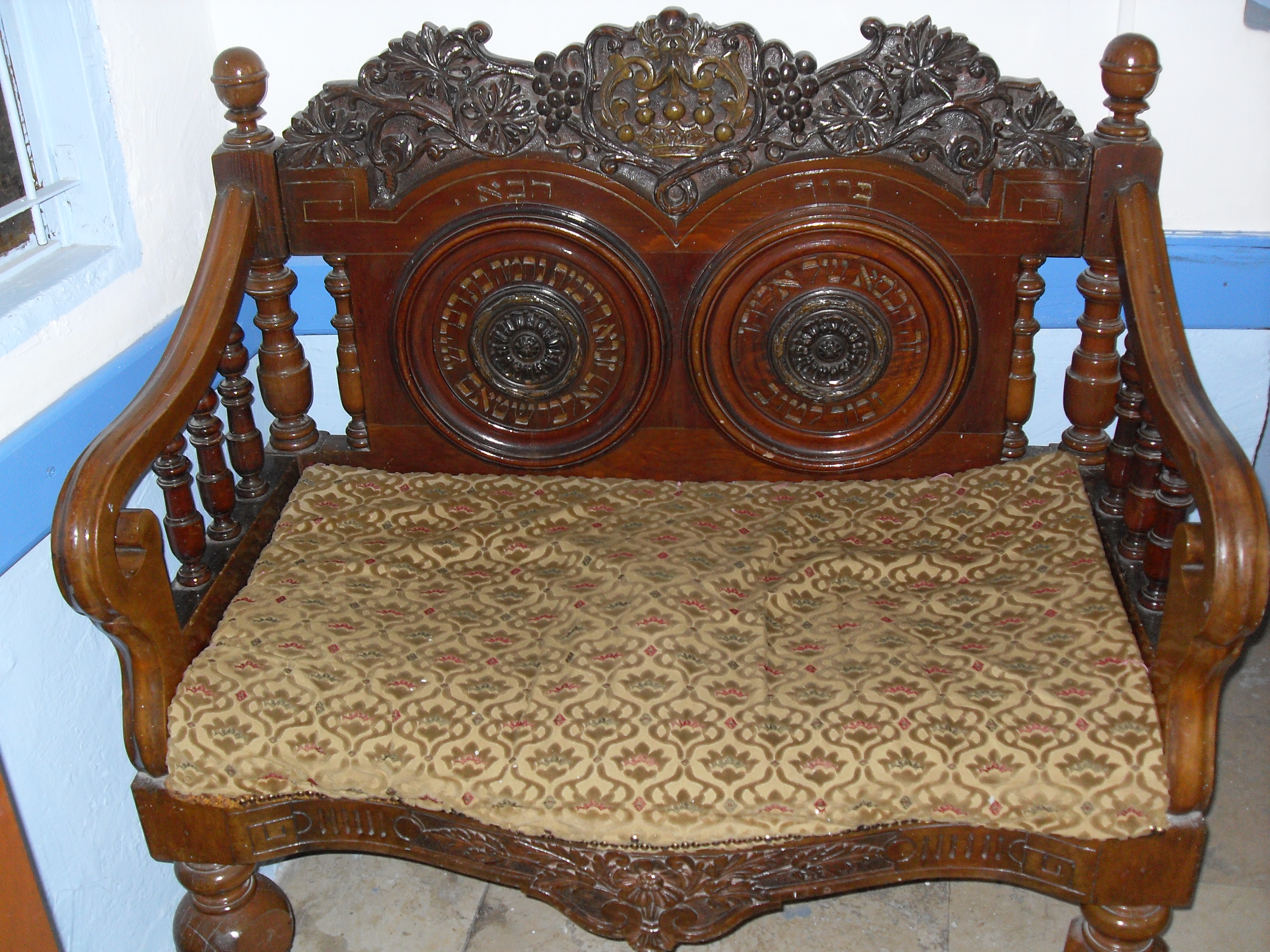 Israel Safed Ari Ashkenazi Synagogue Chair of Elijah, used during the circumcision ceremony.